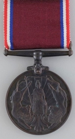 Reverse of medal for Newfoundland World War 2 volunteers who did not received any other volunteer service medal.